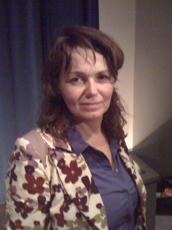 Agnès Merlet at the Q&A after the screening of Dorothy Mills at FFF in Lund, Sweden